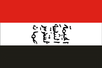 Flag of Popular Front for the Liberation of Oman and the Arab Gulf (PFLOAG), then renamed Popular Front of Liberation of Oman (PFLO)